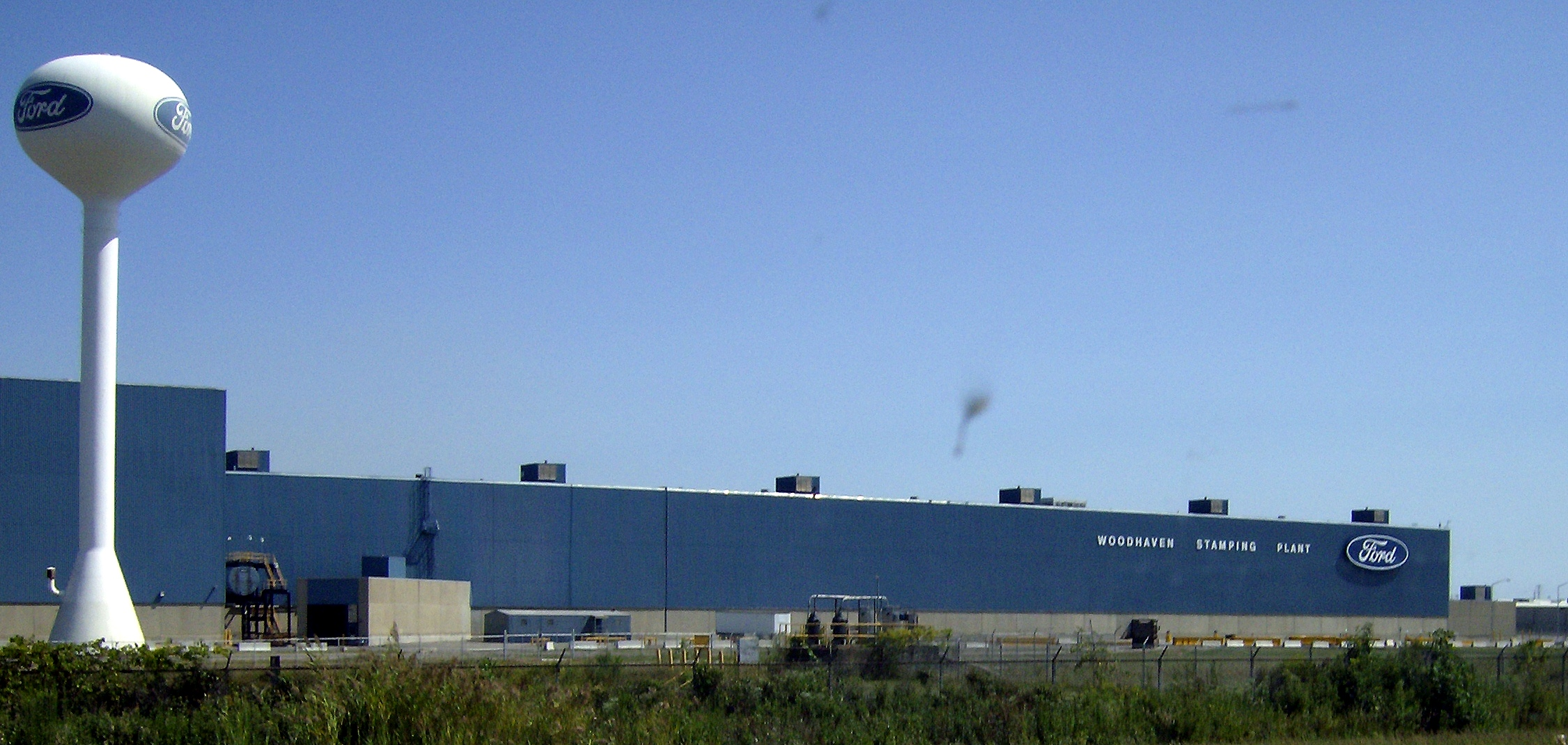 Ford's Woodhaven Stamping plant near Flat Rock, Michigan downriver